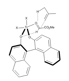 TS Mikami rxn